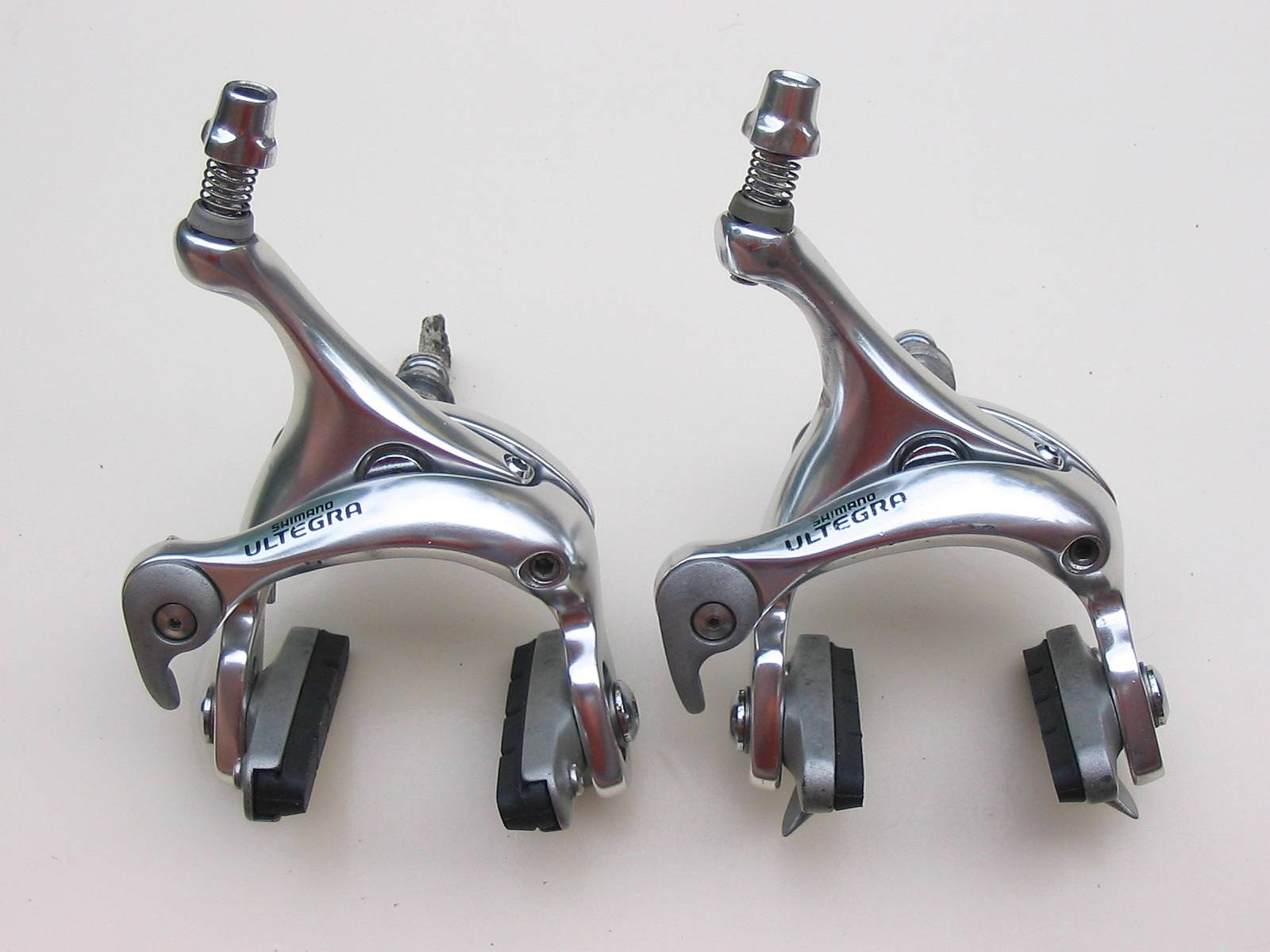 Shimano Ultegra dual-pivot road brake caliper